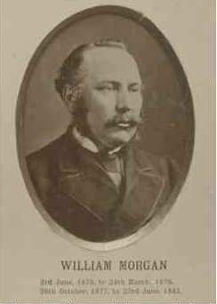 Photograph of William Morgan, Premier of South Australia.